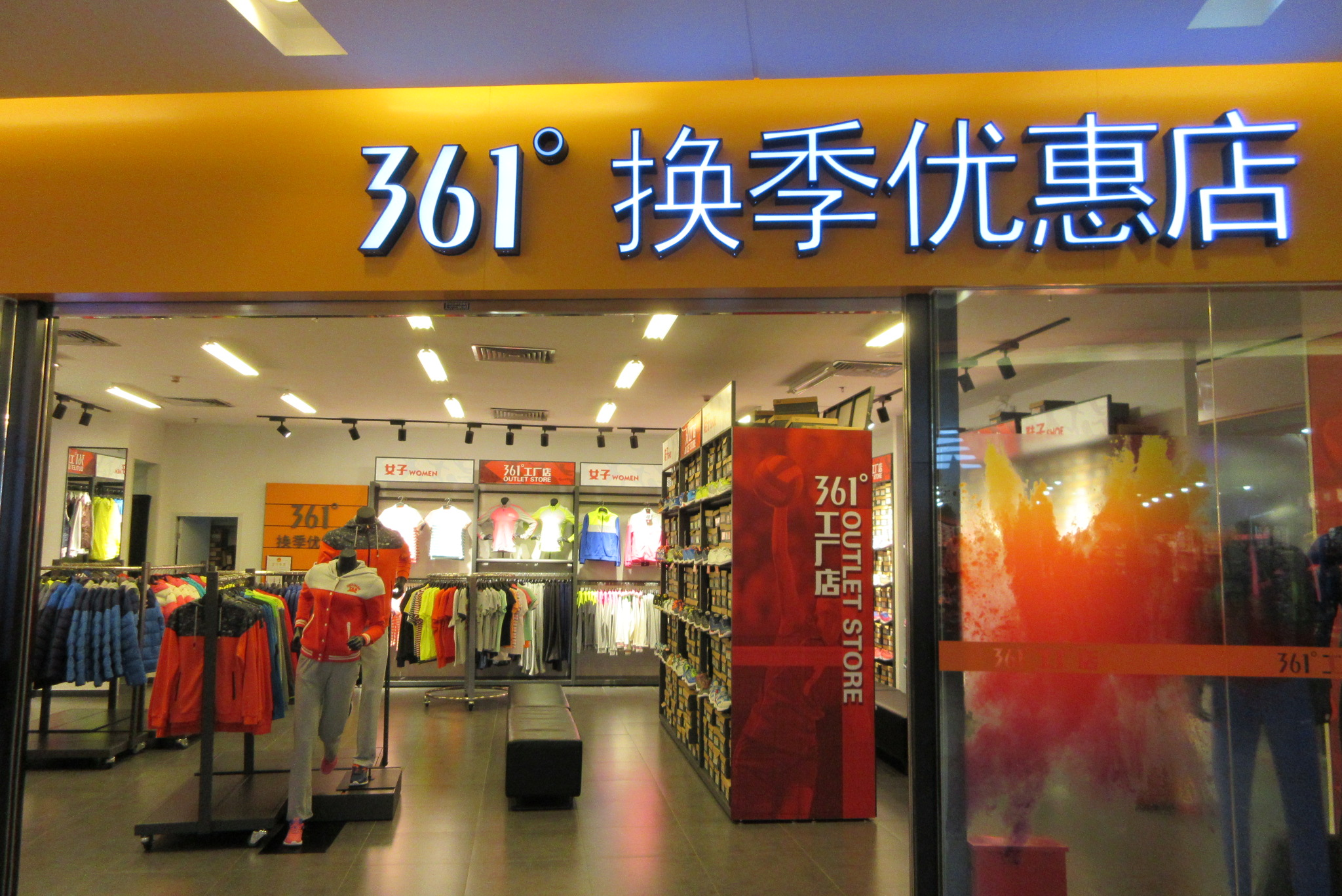 SZ 深圳北站 Shenzhen North Station 東廣場 East Square 繽果空間購物中心 Bingo Space Shopping Center shop clothing in Feb 2017 IX1